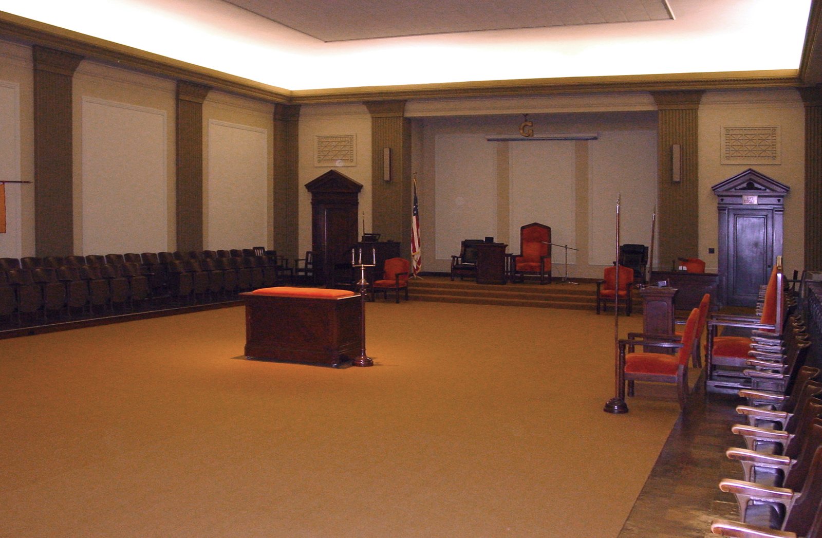 One of two lodge rooms on the second floor in the Freeport Masonic Temple, Freeport Illinois USA